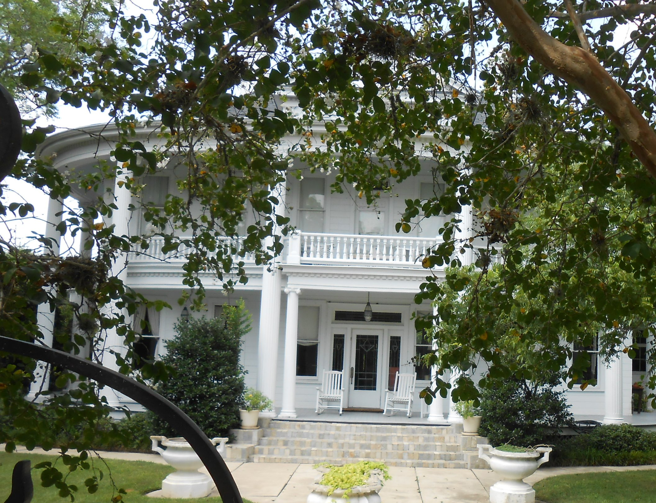 Jules Leffland House, 302 E. Convent Street, Victoria, Texas